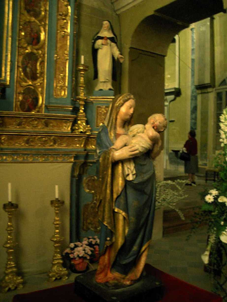 Candia Canavese, Church of San Michele Arcangelo, Jean de Prindall (?), Virgin Mary and Child, ca. 1415-17, marble, 66 x 23 x 20,5 cm (The statue until 1970 was placed in the crypt of the Church of Santo Stefano)